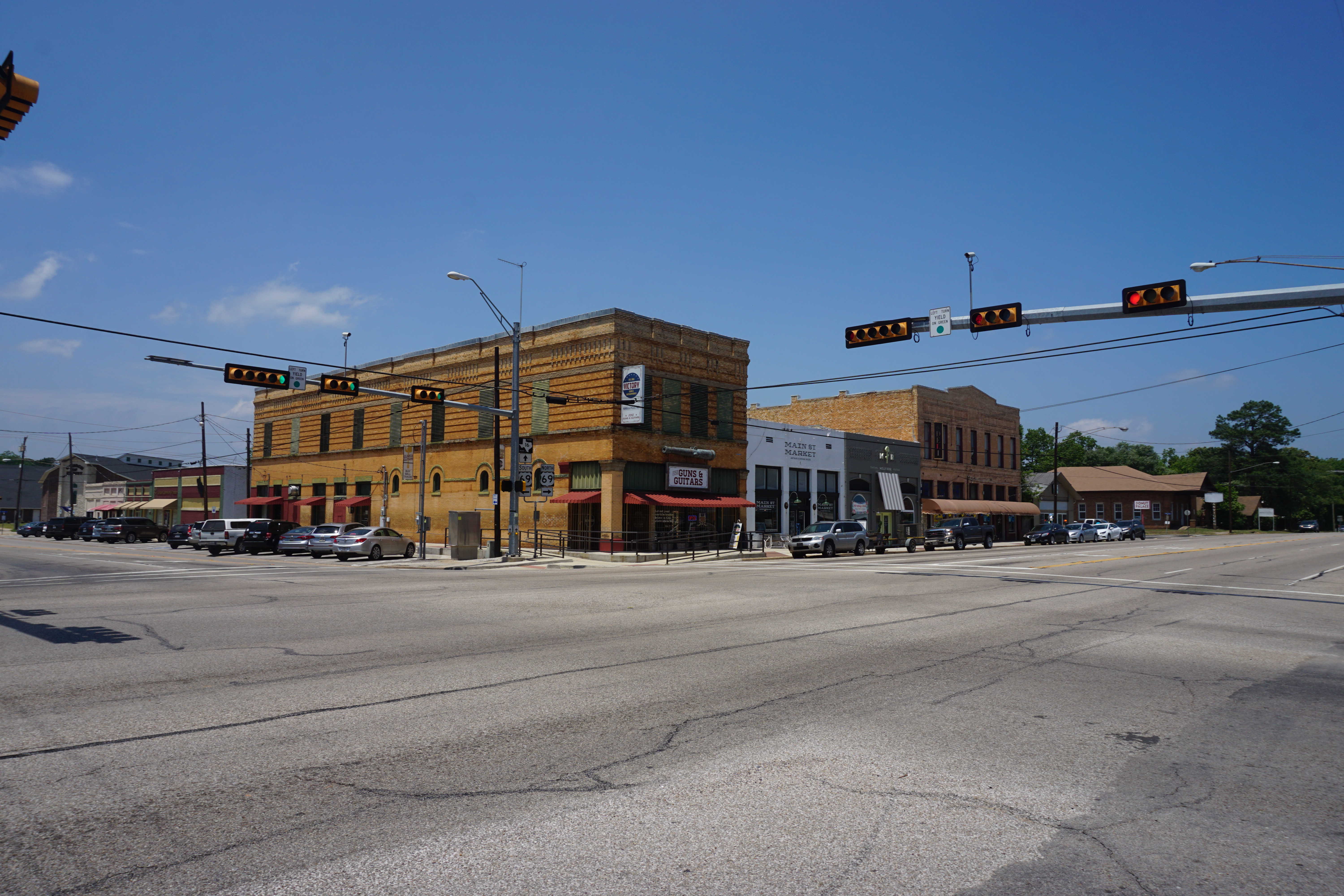 The intersection of Hubbard Street and Main Street in Lindale, Texas (United States).